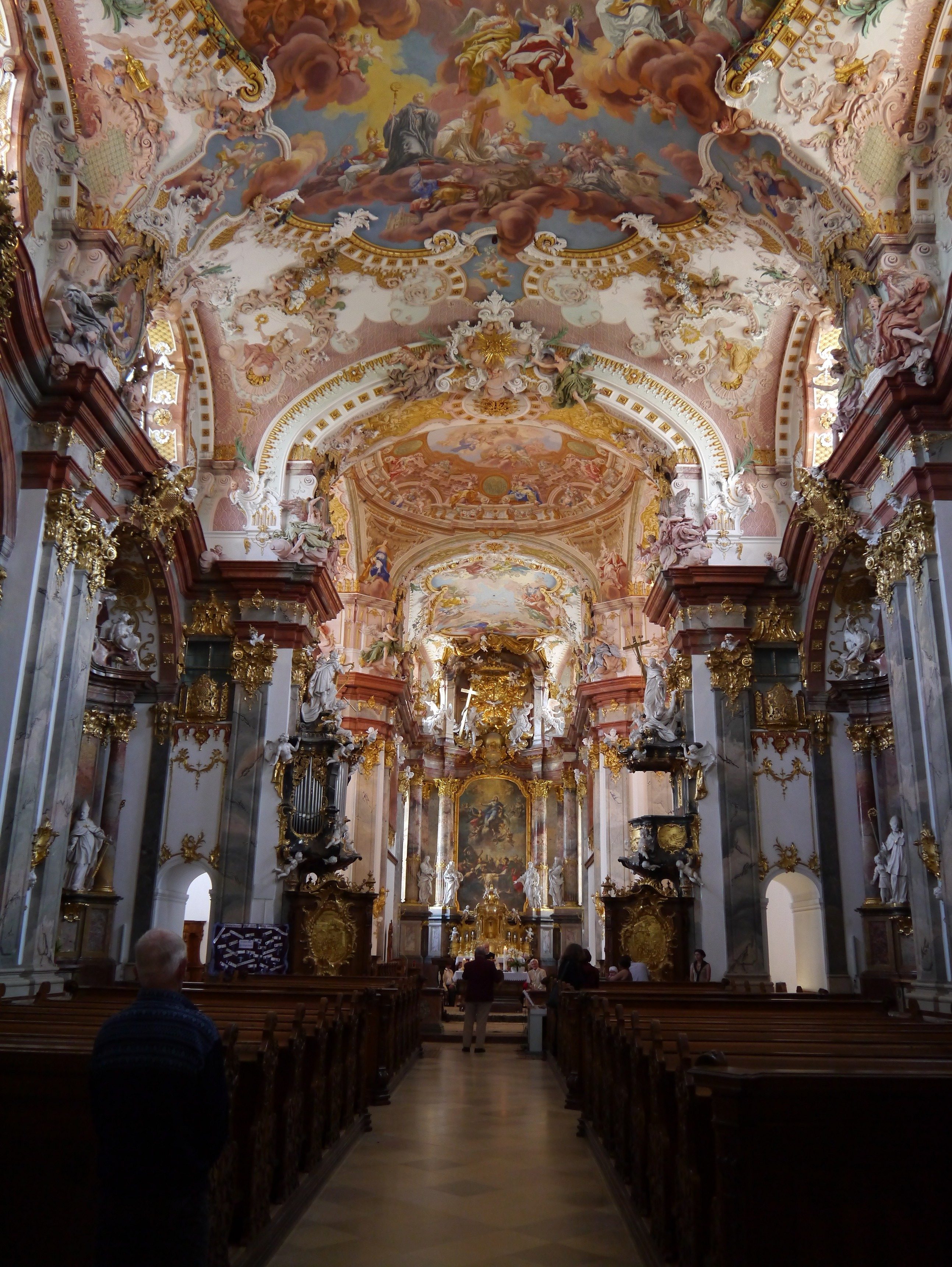 Nave of Wilhering Monastery Church, Wilhering, Upper Austria